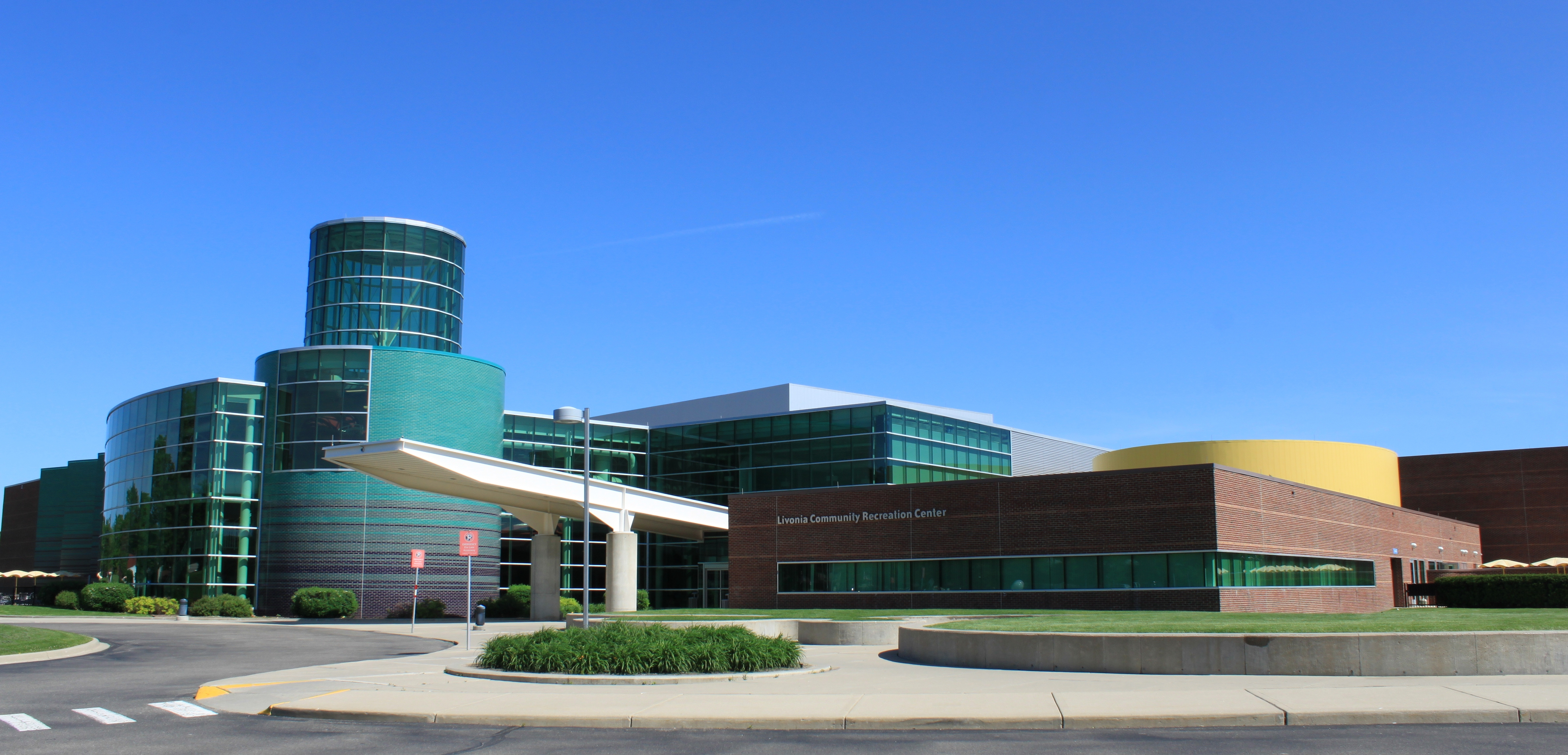 Livonia Community Recreation Center, 15100 Hubbard, Livonia, Michigan